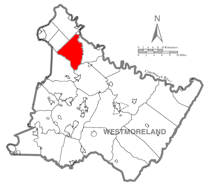 Map of Westmoreland County, Pennsylvania highlighting Washington Township